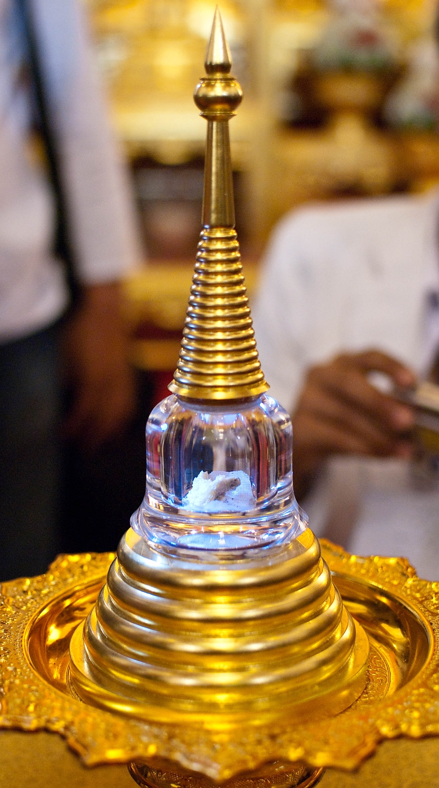 A relic found amid the ashes of Chan Kusalo (the Buddhist "archbishop" of Northern Thailand) is placed inside a chedi shaped vial and displayed inside Wat Chedi Luang the day after the cremation. Chan Kusalo, November 26, 1917 - July 11, 2008